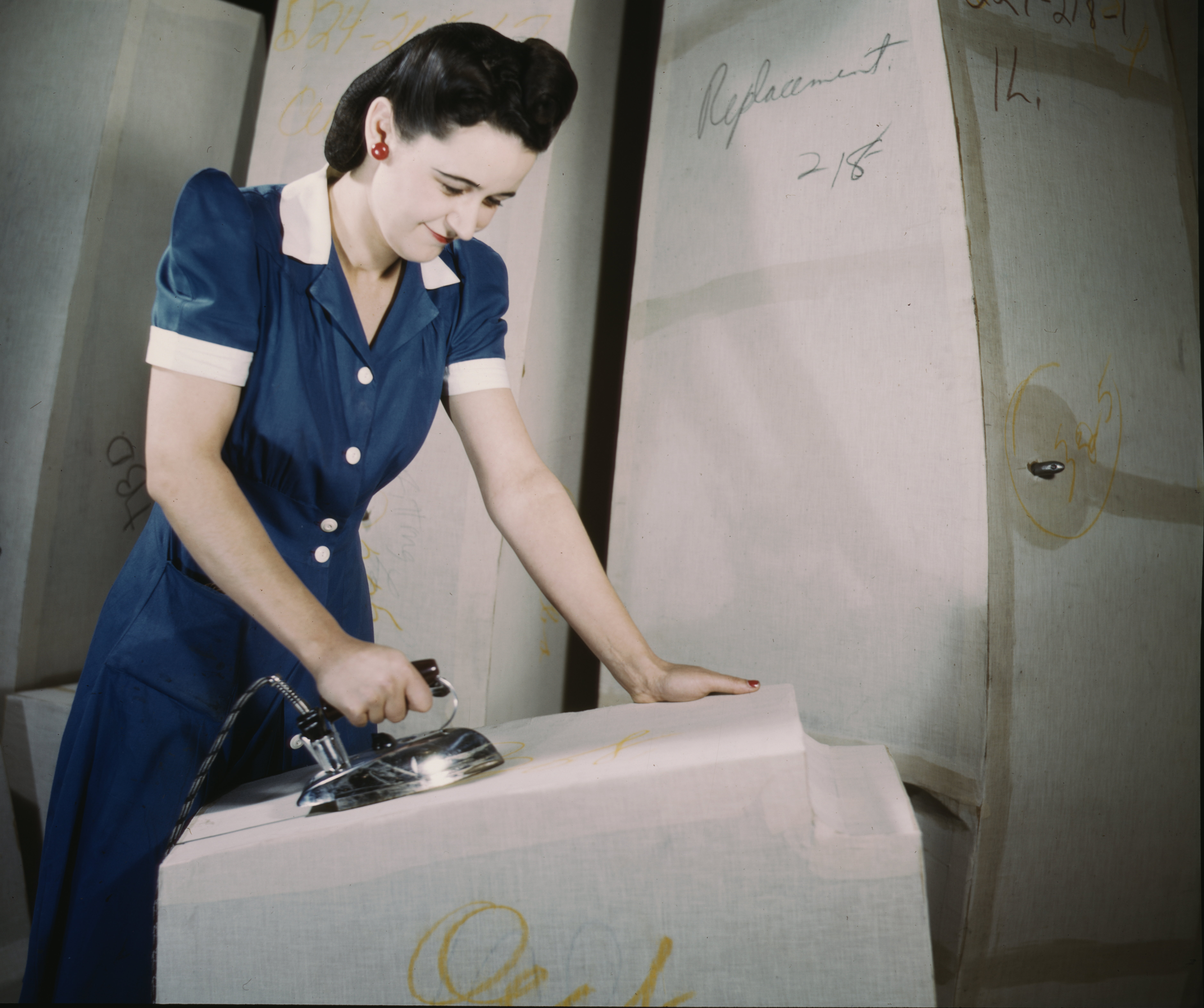 Manufacture of self-sealing gas tanks, Goodyear Tire and Rubber Co., Akron, Ohio.